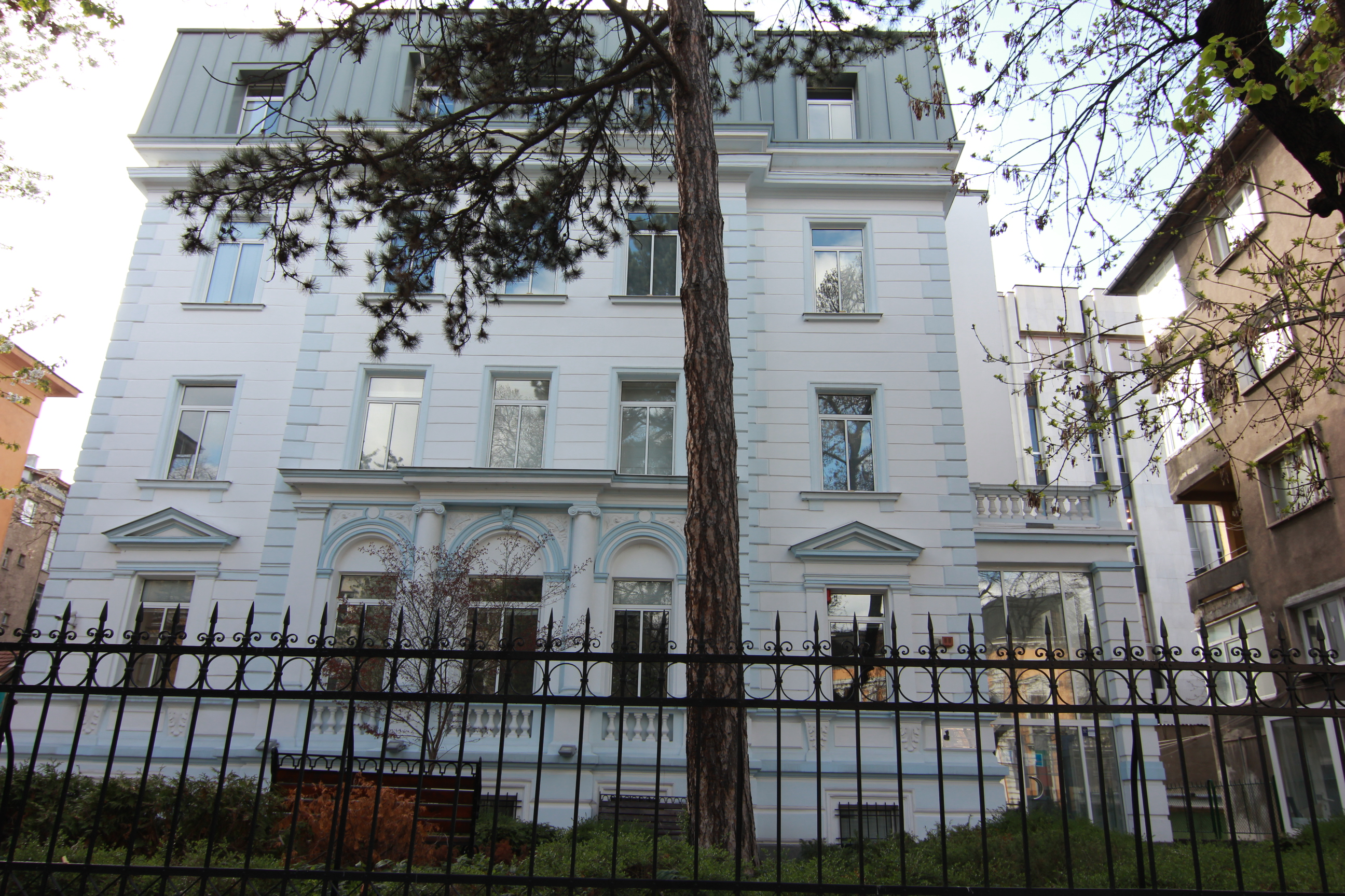 Bulgarian American Credit Bank on Krakra Street, Sofia, Bulgaria